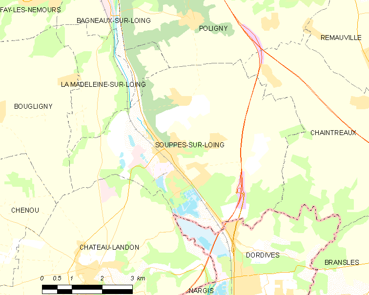 Map of French municipality Souppes-sur-Loing